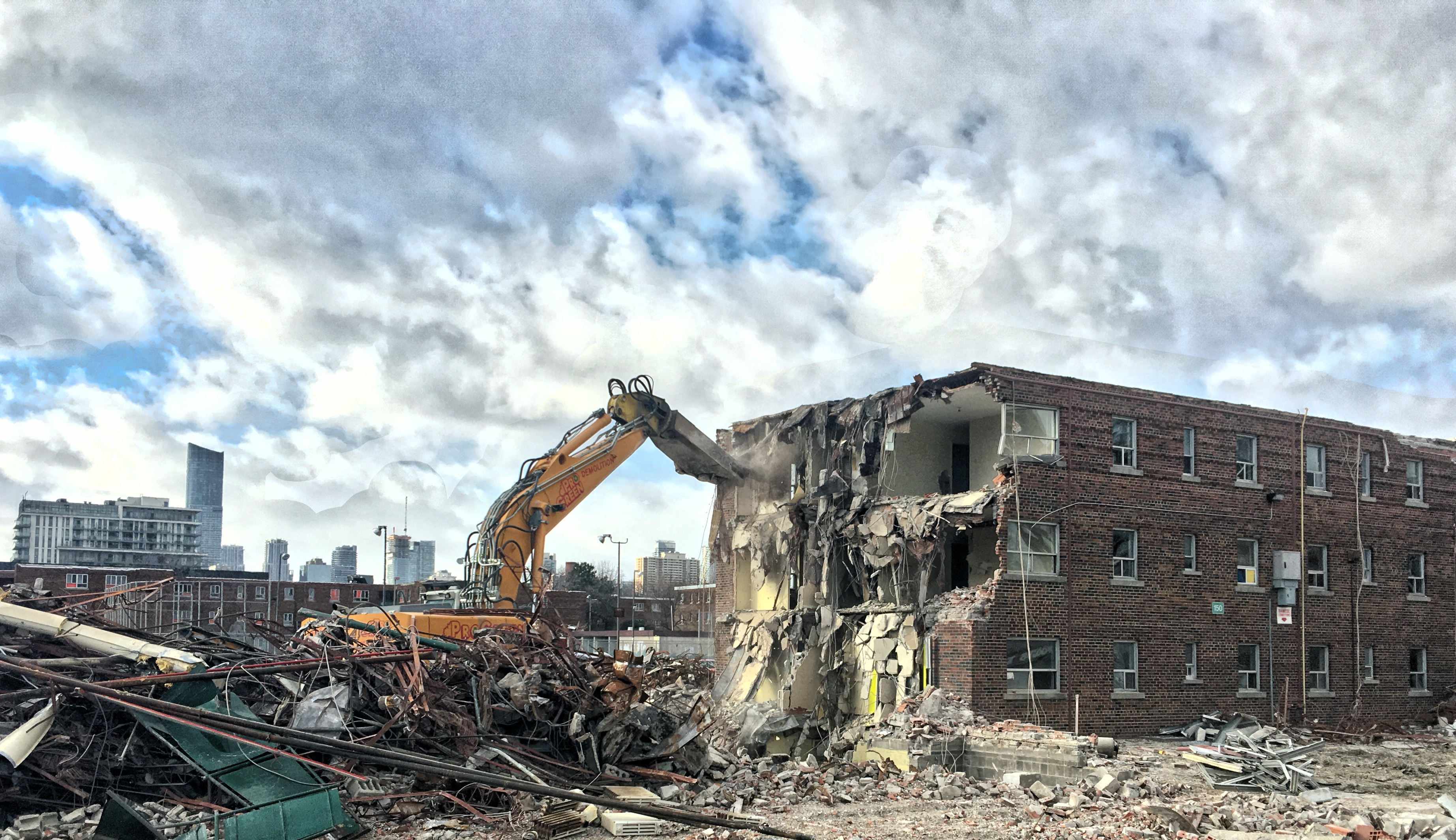 On a cold day in January, what seemed to be the last piece of Regent Park was being demolished. All at once, I thought about how many people would love to be the one destroying these building; while thinking about where all the roaches were scattering to.